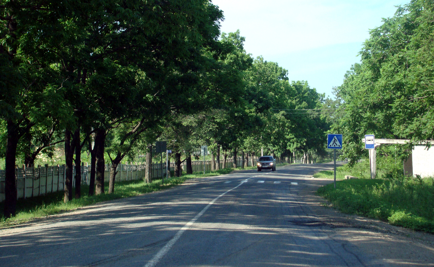 Barabash Town in Primorsky Krai 2009